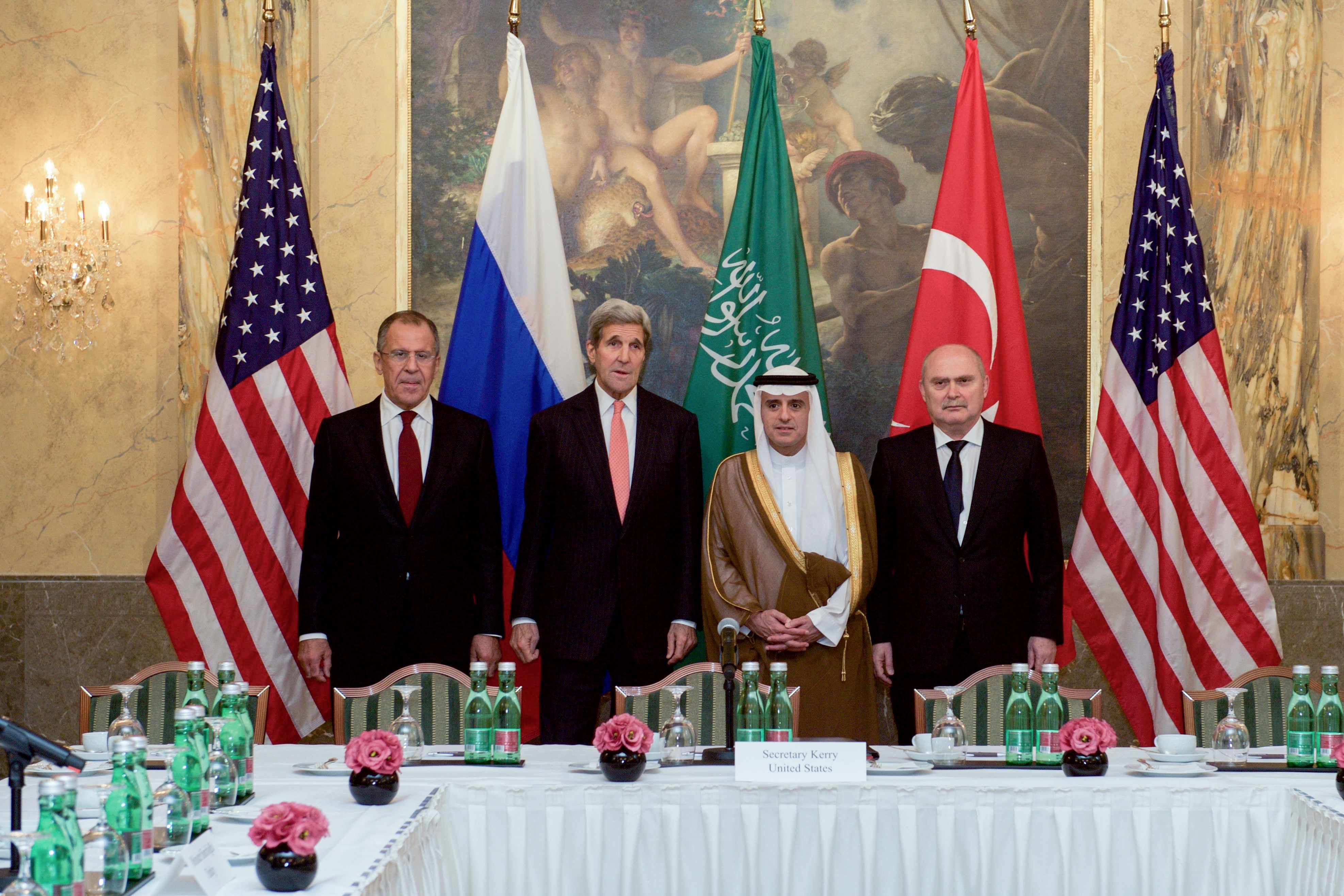 U.S. Secretary of State John Kerry stands with Russian Foreign Minister Sergey Lavrov, Saudi Foreign Minister Adel al-Jubeir, and Turkish Foreign Minister Feridun Sinirloglu on October 29, 2015, at the Hotel Imperial in Vienna, Austria, before a four-way discussion focused on Syria.